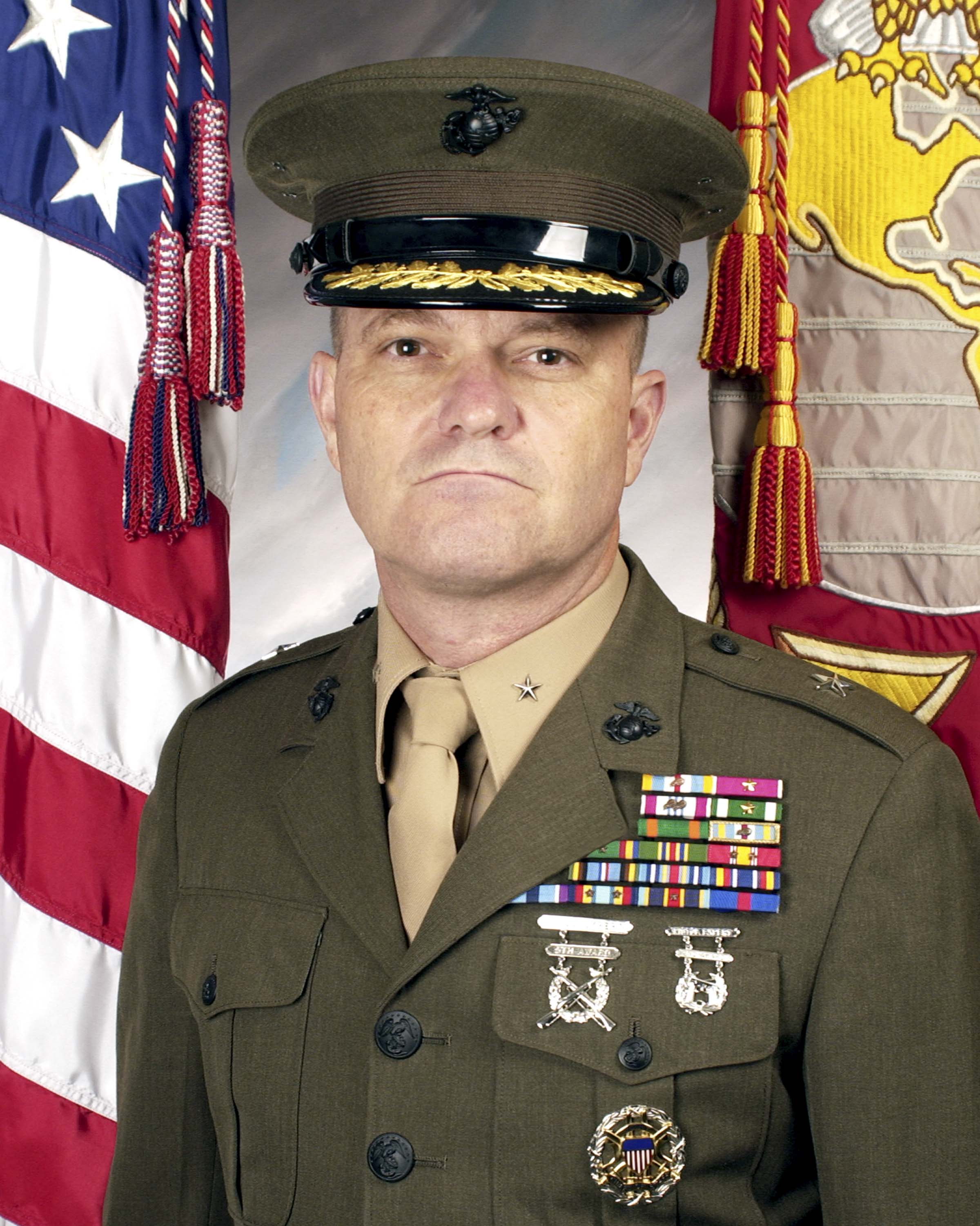 Source: USMC biography Author: USMC employee